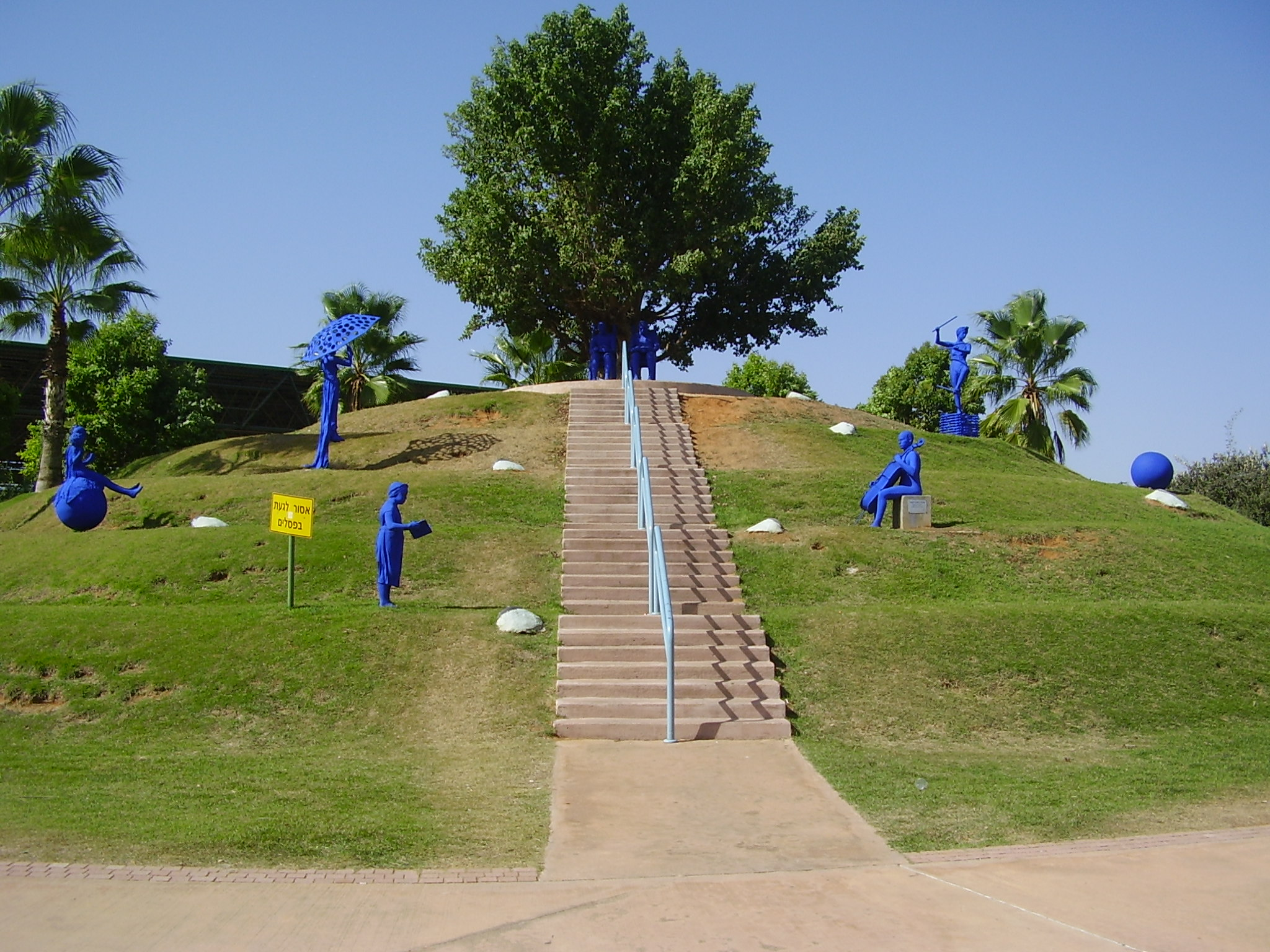 reisfeld park in kiryat ono